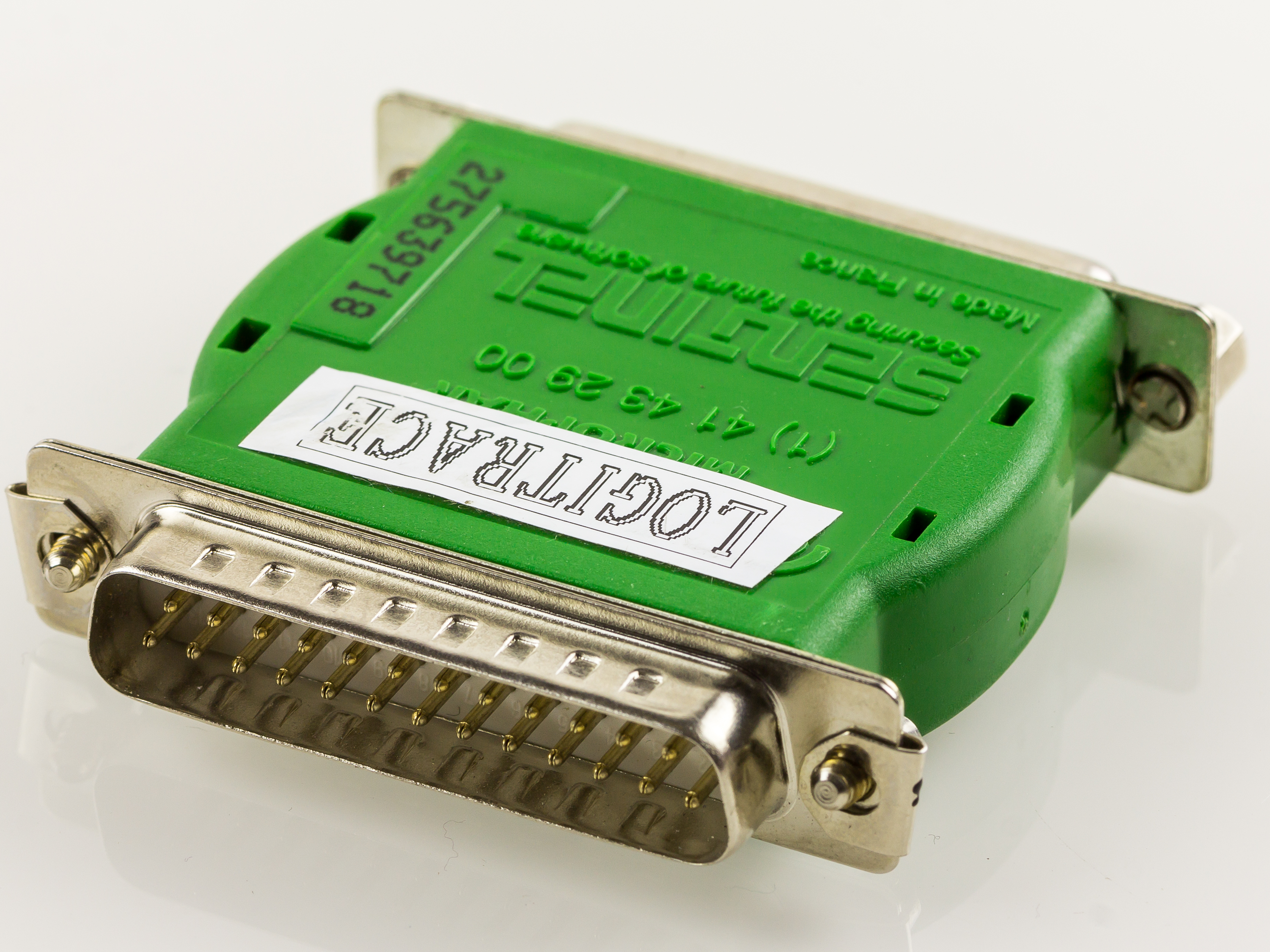 Dongle Sentinel Microphar for Logitrace. Connect to the parallel port